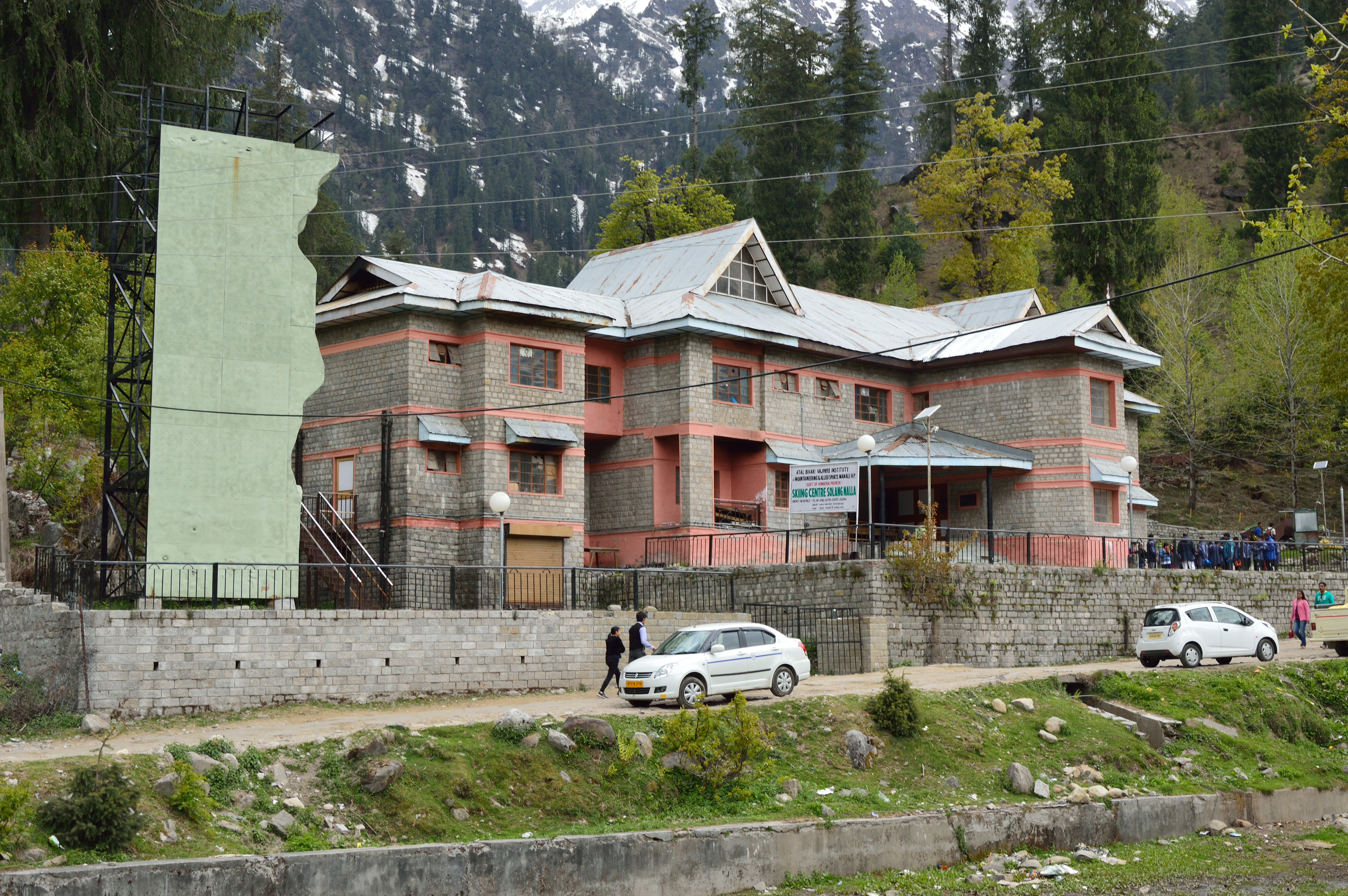 Photographed in Kullu district, Himachal Pradesh.